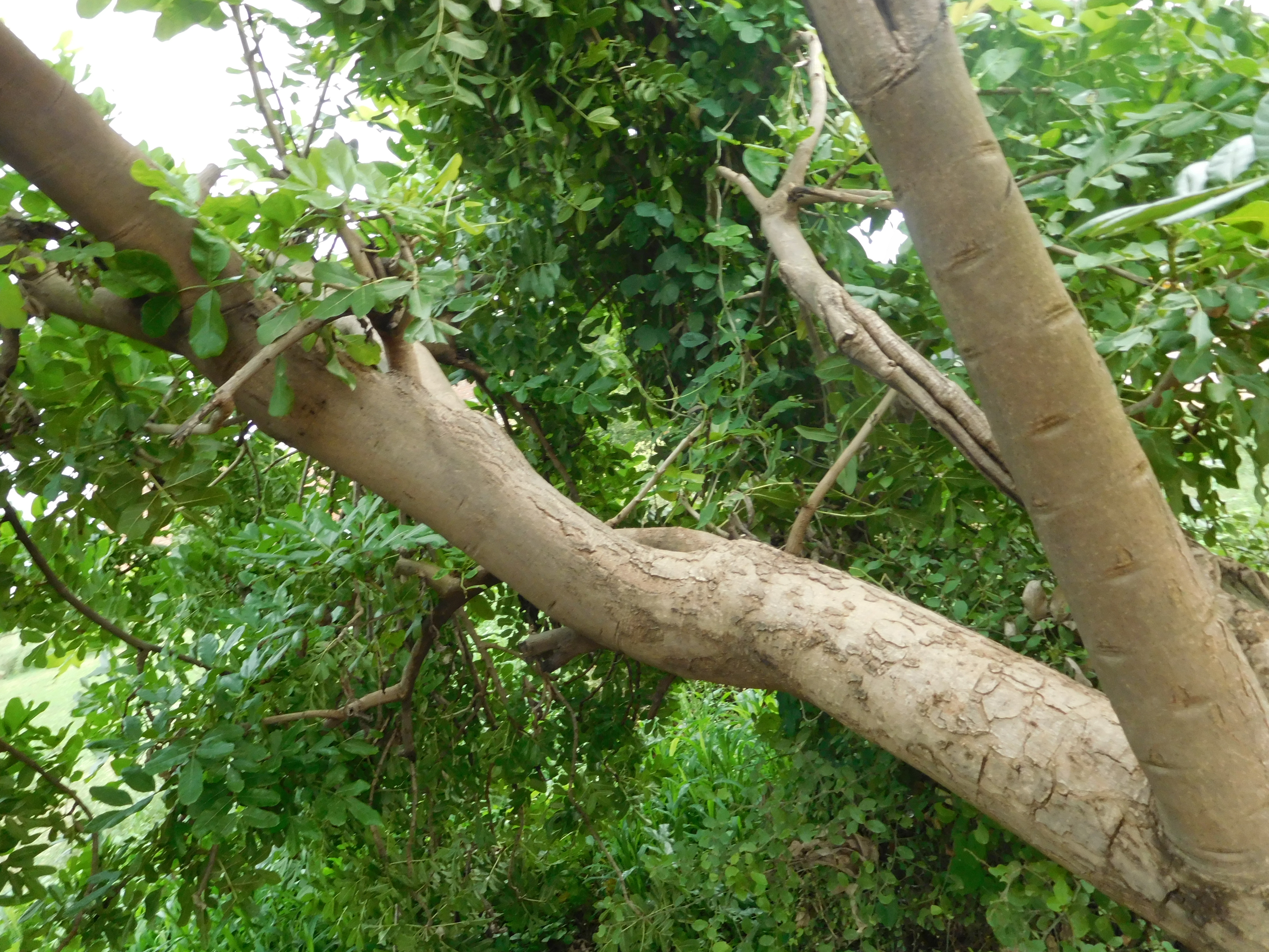 Balamkheera in Kanpur India is medicinal tree.